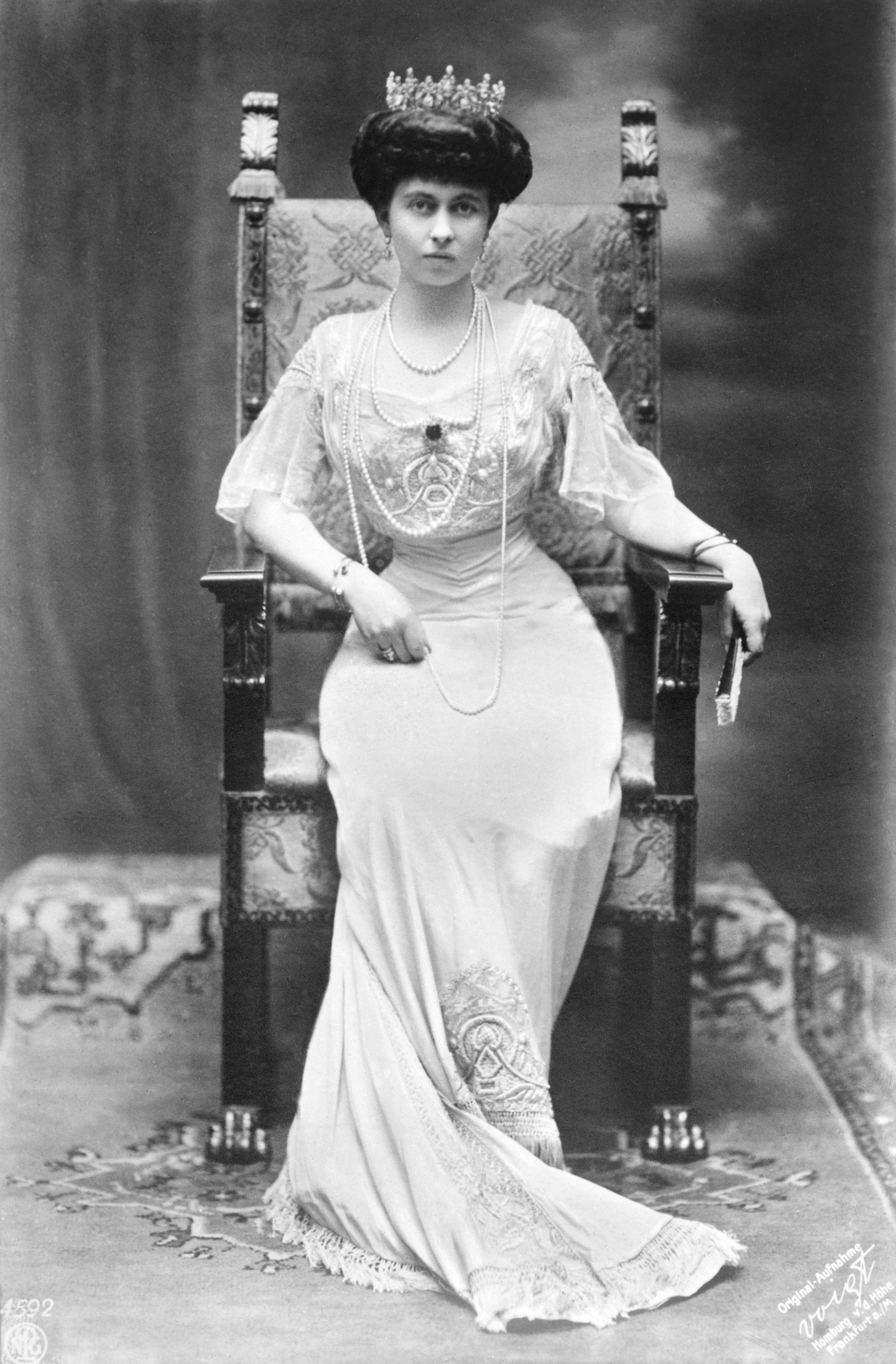 Queen Sophie of Greece (also Princess of Prussia)